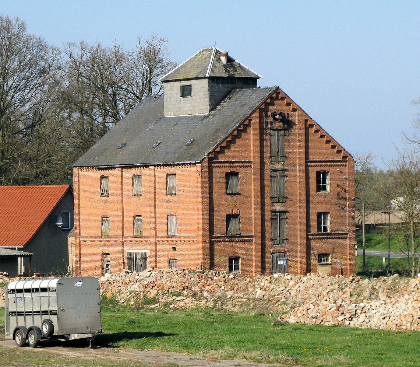 Warehouse in Groß Grabow, disctrict Güstrow, Mecklenburg-Vorpommern, Germany